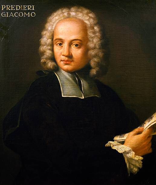 Portrait of Italian singer and composer Giacomo Cesare Predieri (1671-1753)